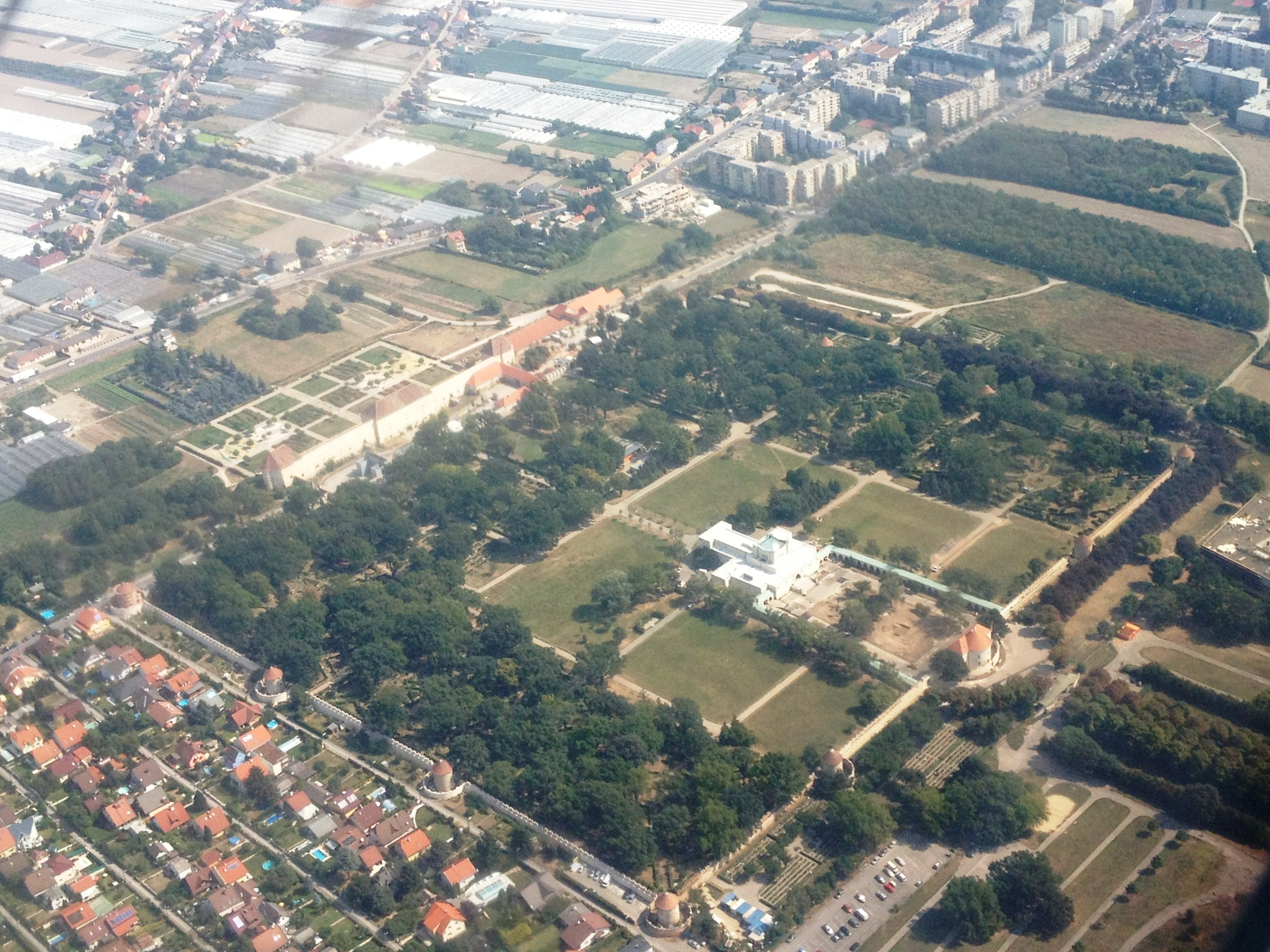 View of Neugebäude Palace, Vienna.